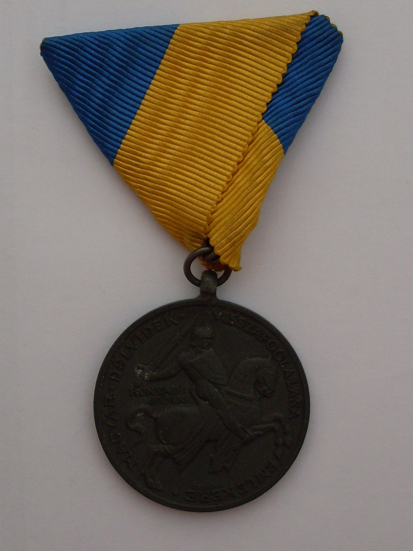 Commemorative Medal for the Return of South Hungary